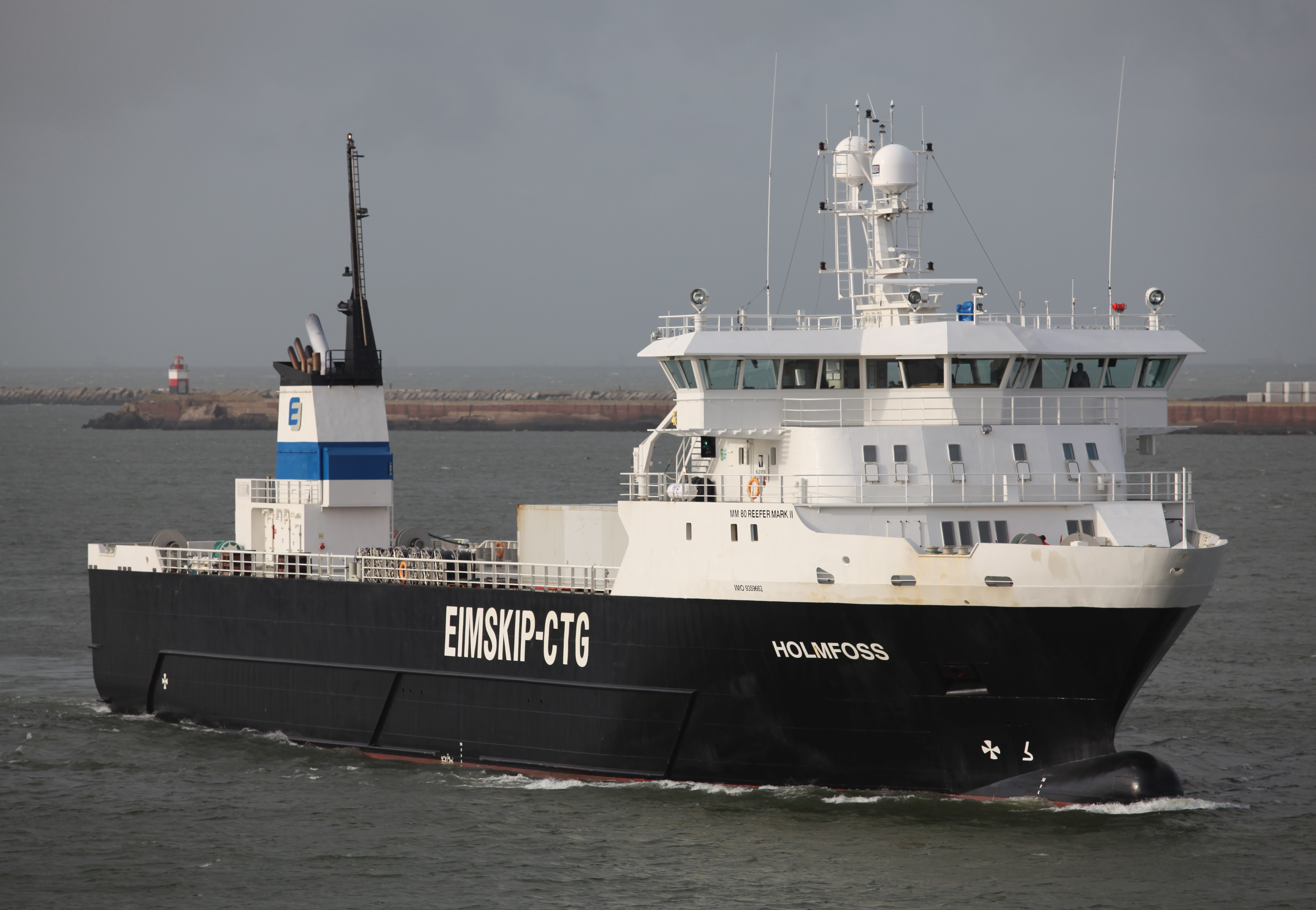 Holmfoss St. Johns IMO 9359662 build 2007